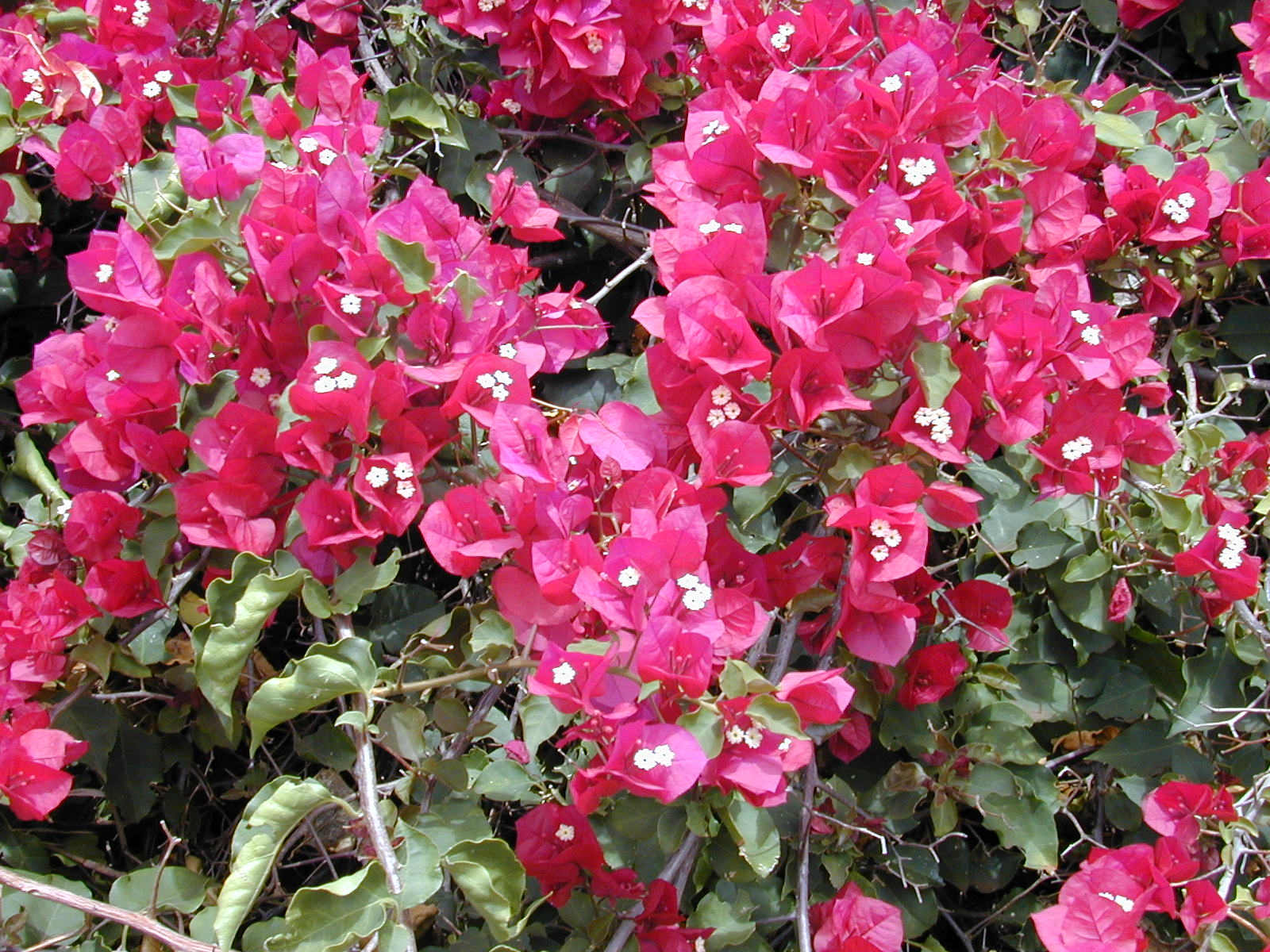 Bougainvillea spectabilis (flowerings). Location: Maui, Kula